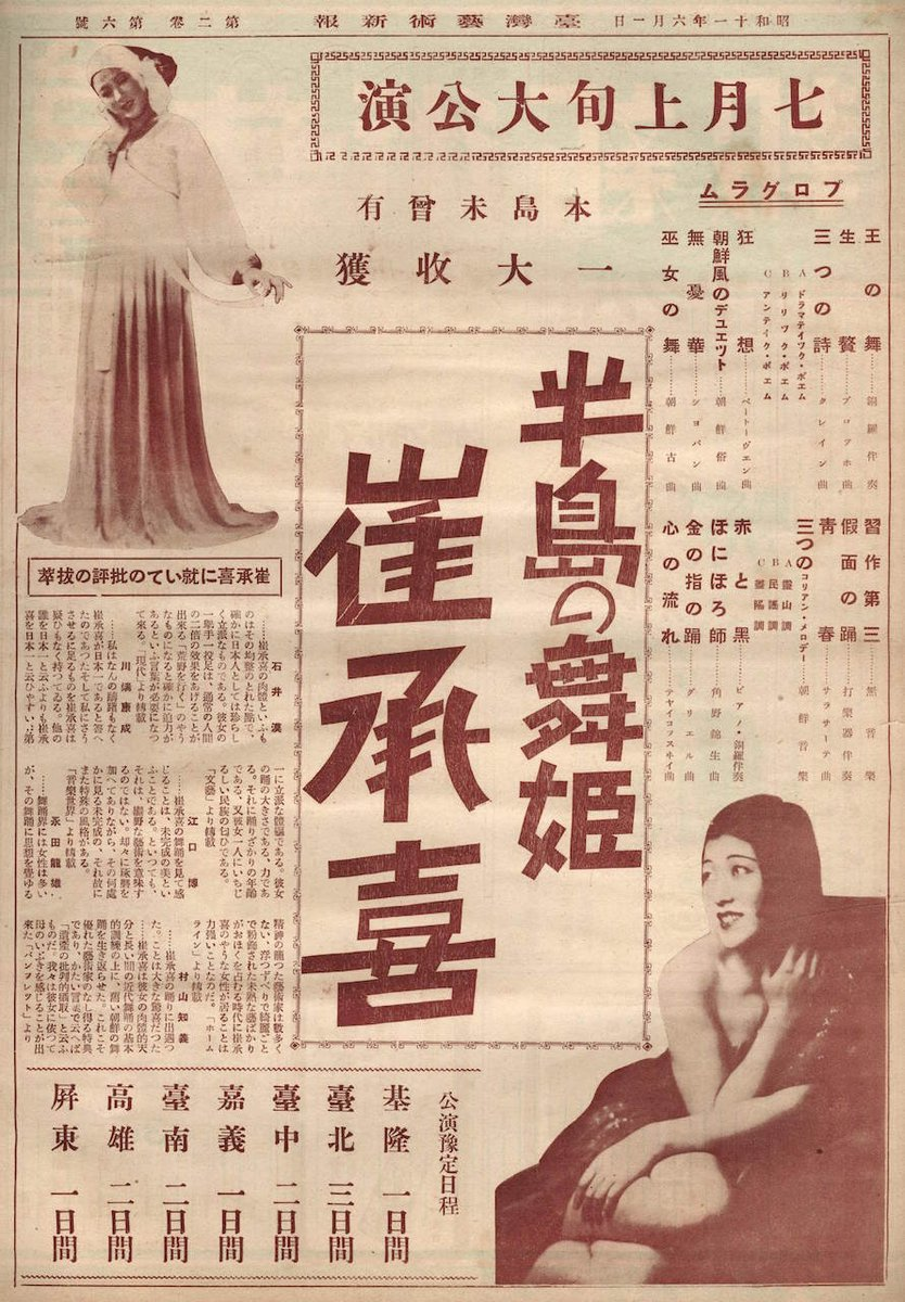 An magazine ad about the performance of Choi Seung-hee